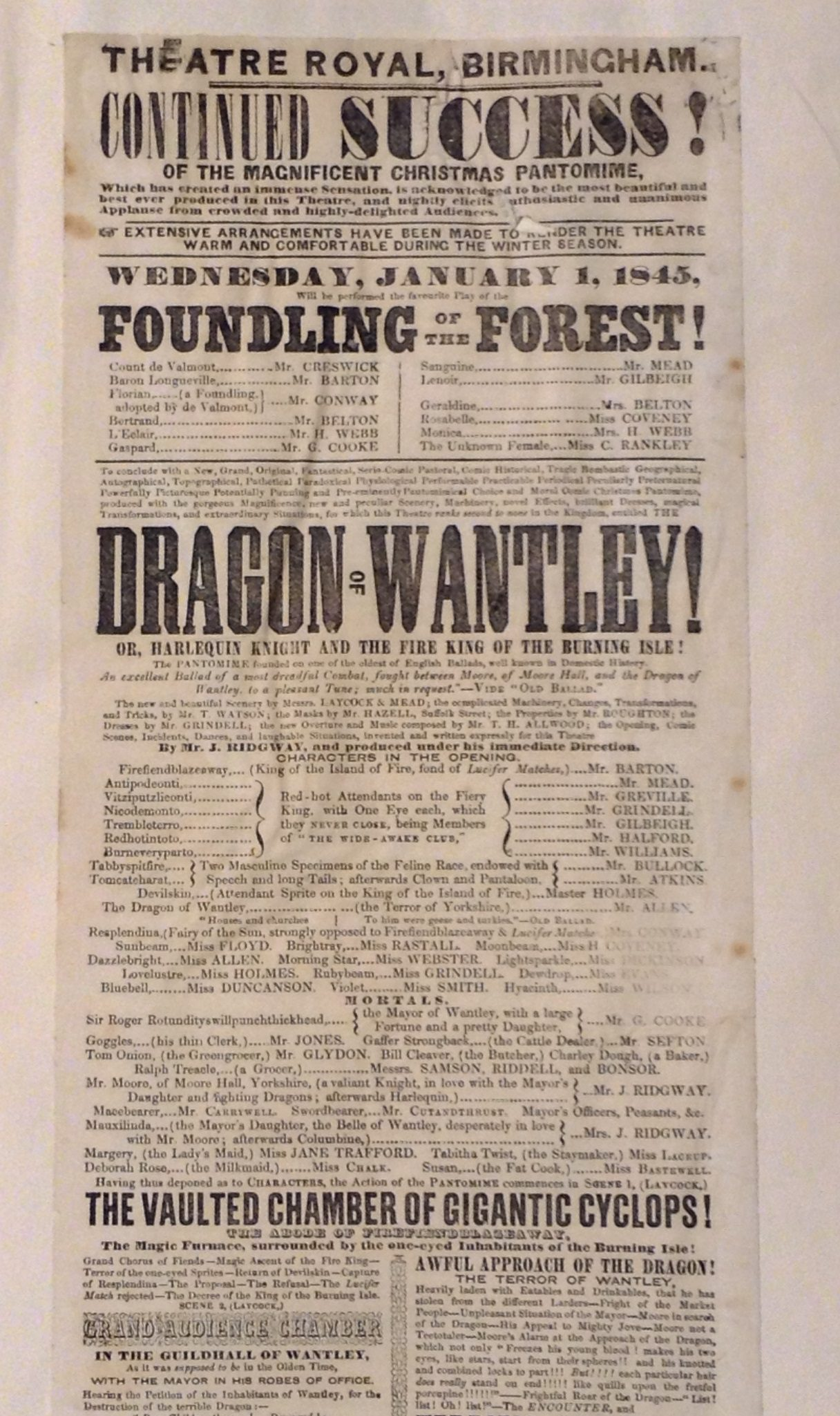 Playbill from the Theatre Royal, Birmingham, England. The text in this image should be transcribed and included in the description on this page. See also Transcription . The Google OCR tool may be of use in transcribing images.